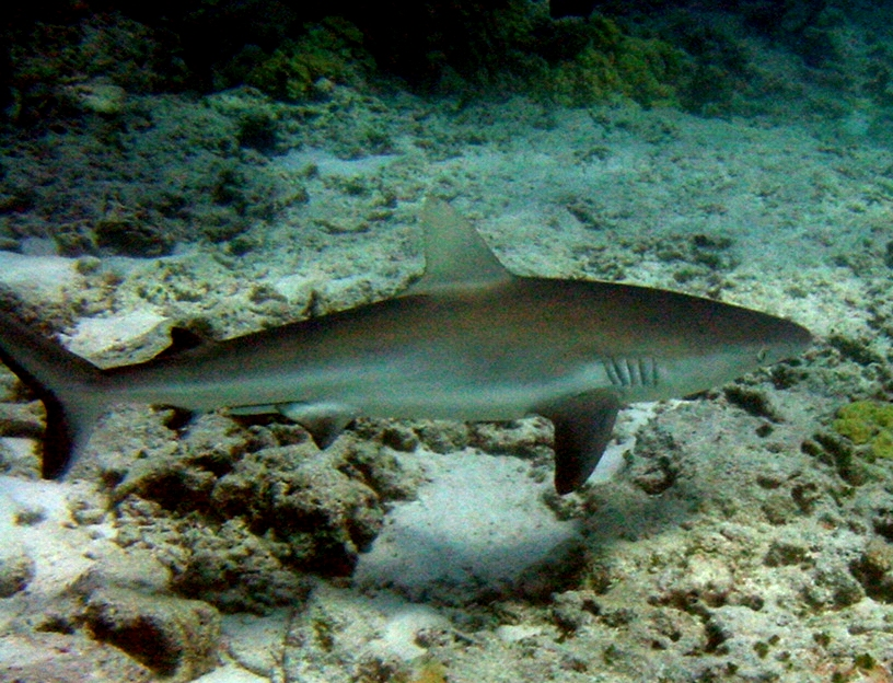 Galapagos shark (Carcharinus galapagensis) Image ID: reef0693, NOAA's Coral Kingdom Collection Location: Northwest Hawaiian Islands